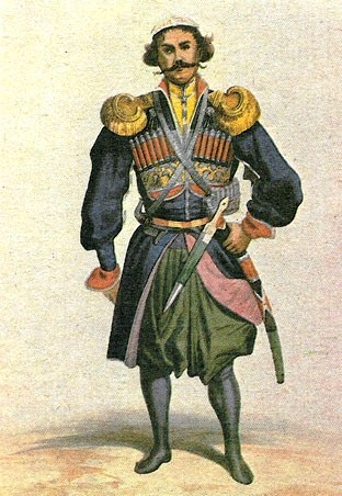 Mingrelian prince. 1840s. Author: Prince Gregory Gagarin.